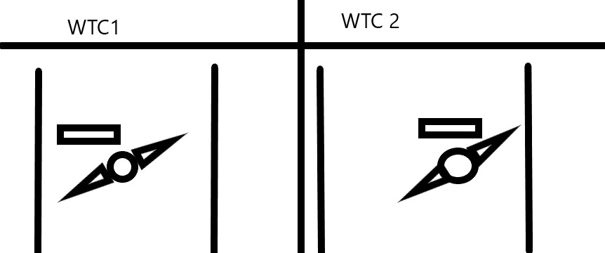 wtc hit orientation